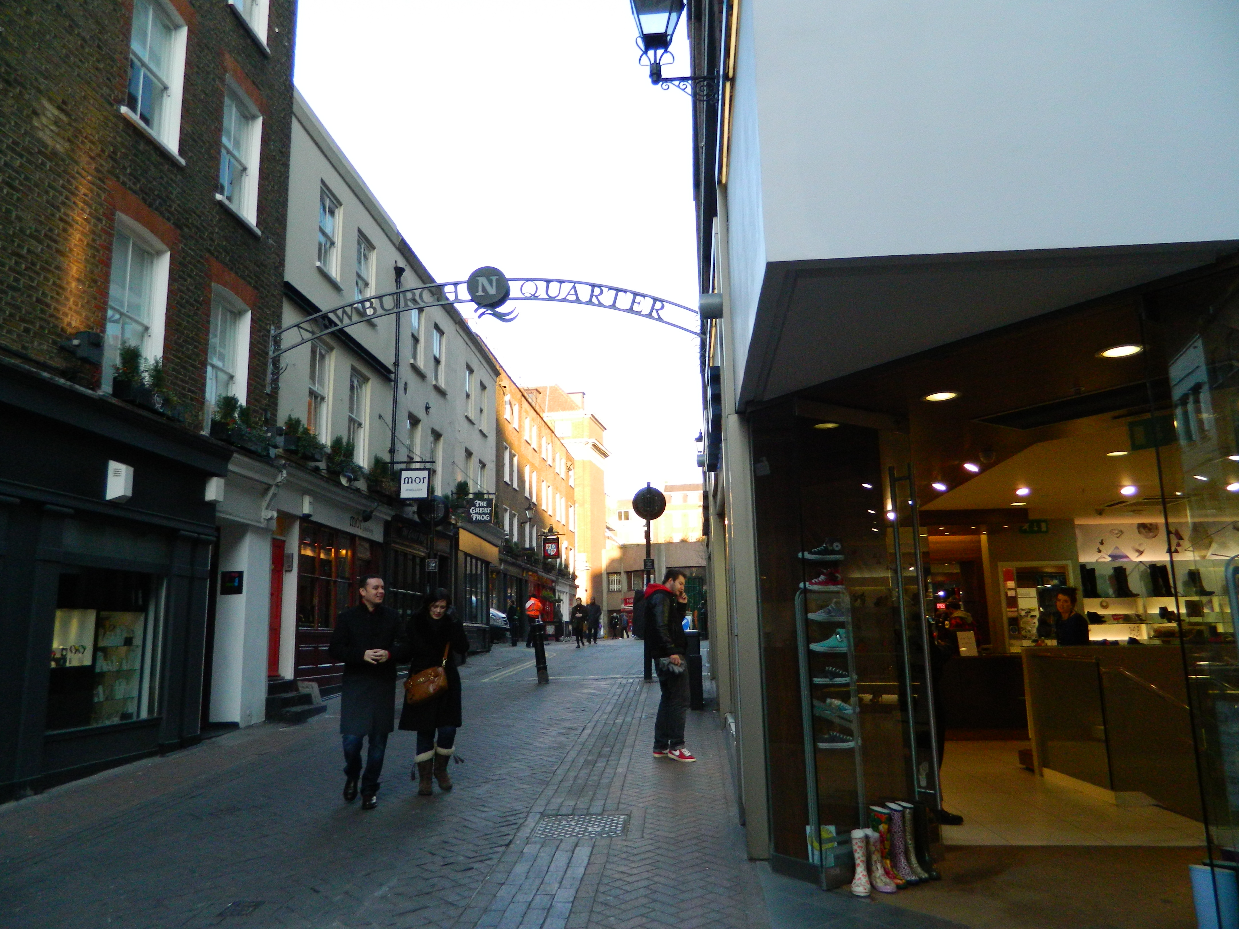 Looking along Ganton Street from Carnaby Street, London W1.